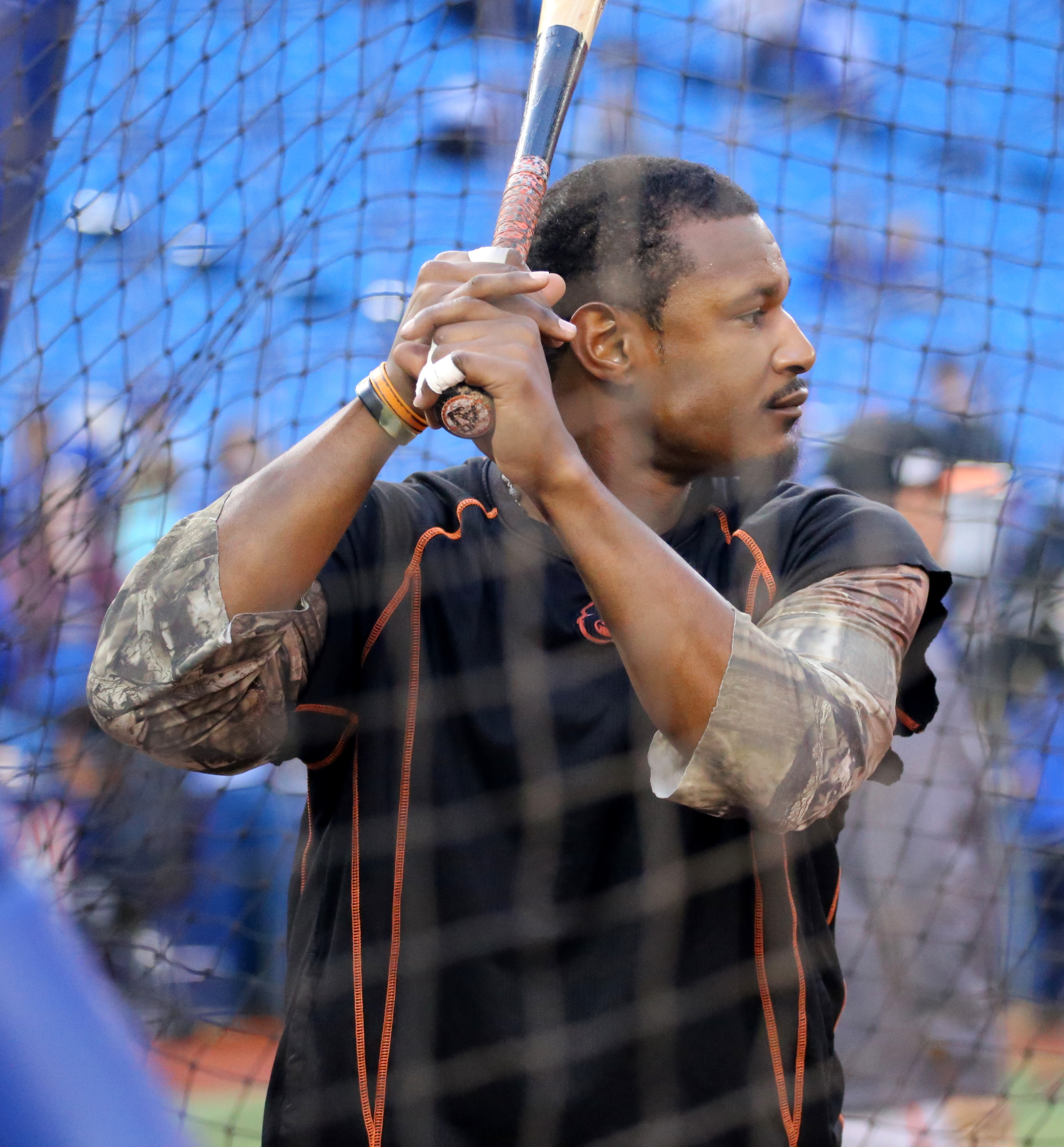 Orioles outfielder Adam Jones takes batting practice before the AL Wild Card Game.